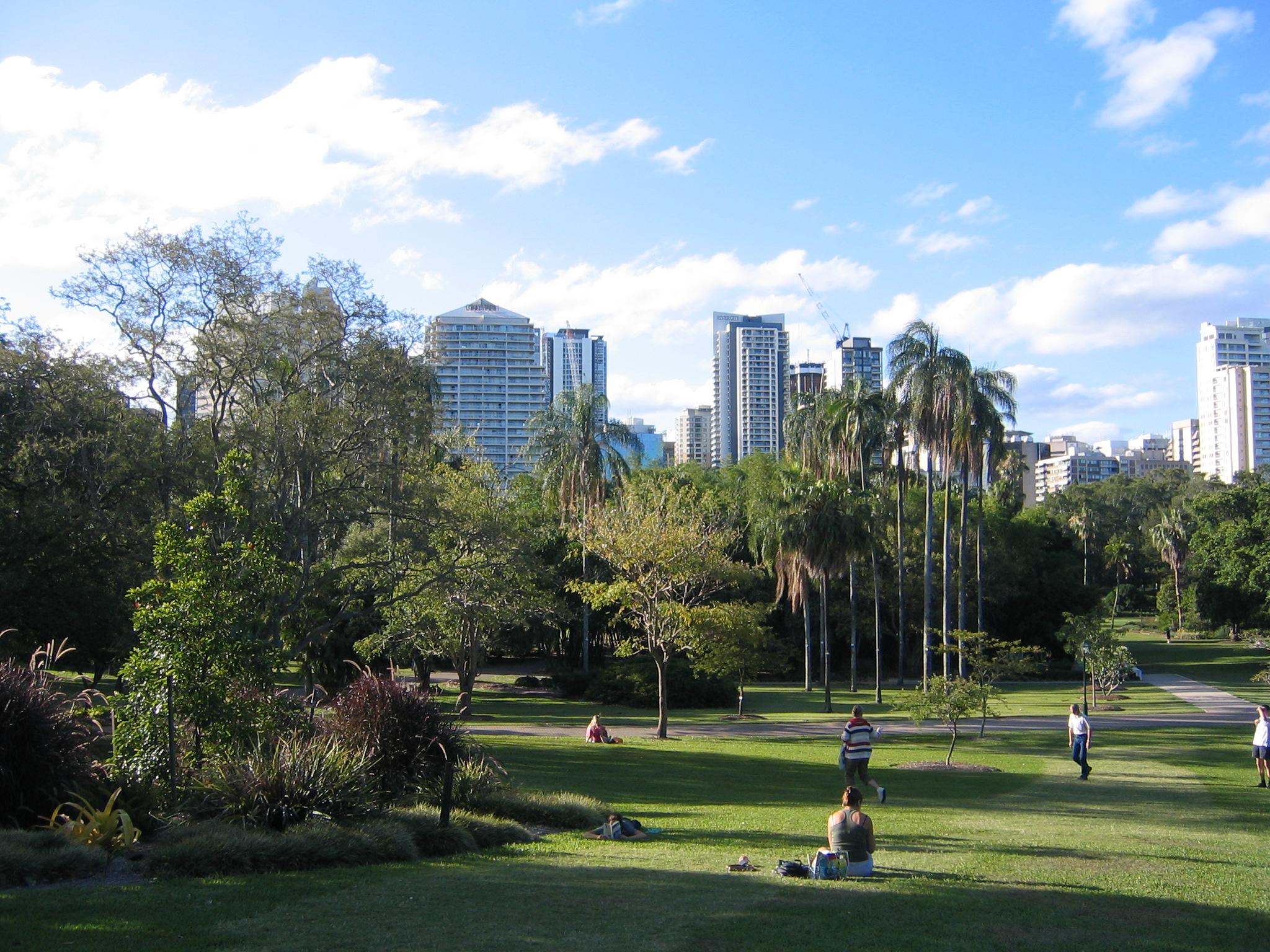 City Botanical Garden facing Alice Street